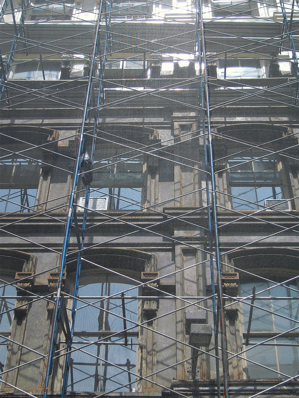 Gusseisenfassade eines Hauses in der Water Street in SoHo (New York City). Cast Iron Facade of a building in the Water Street in SoHo (New York City).